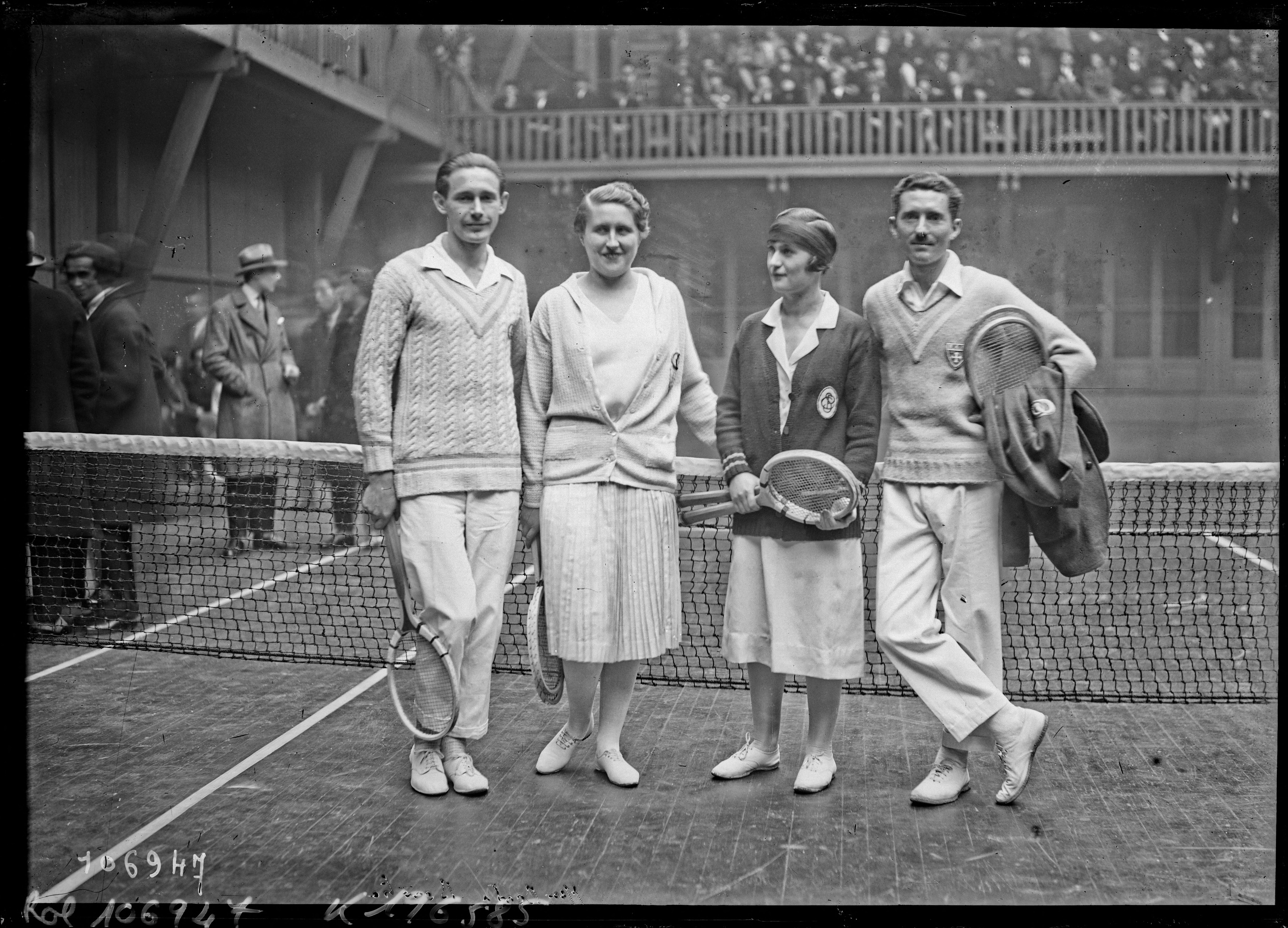 Brugnon Le Besnerais Bordes Borotra in 1926